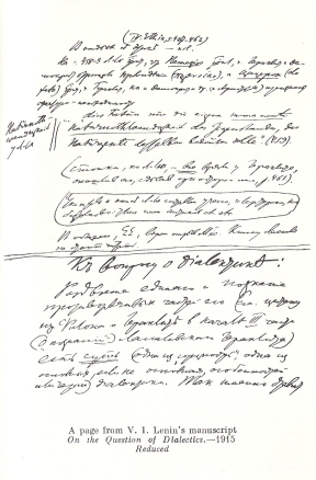 A page from V. İ. Lenin's manuscrpit "On the Question of Dialectics - 1915 Reduced